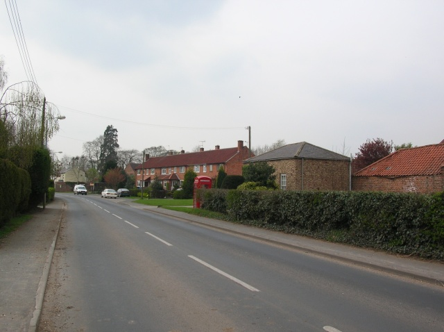 Full Sutton, East Riding of Yorkshire, England.A small village with a prison.